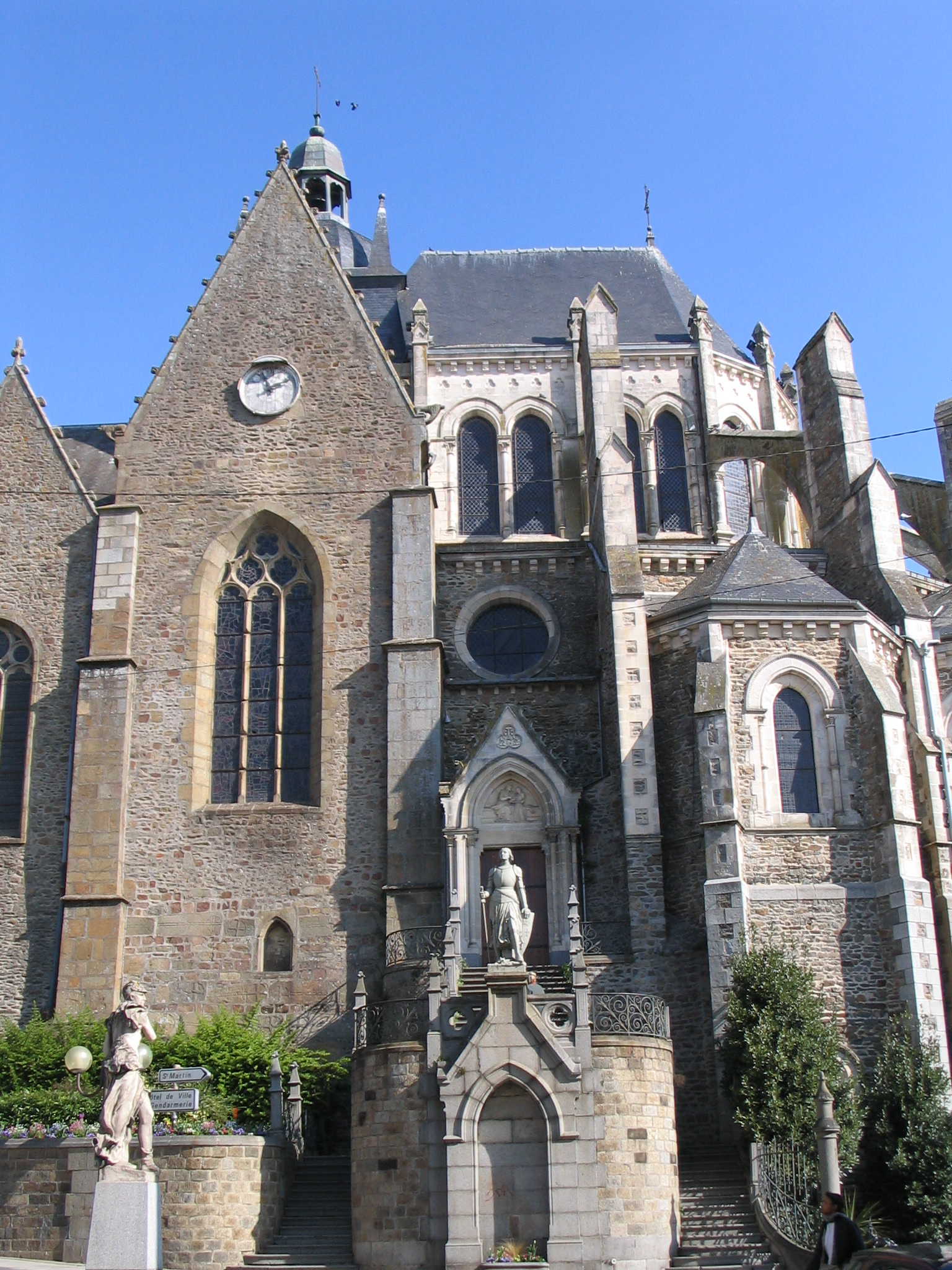 The basilica of Mayenne, Mayenne, France.